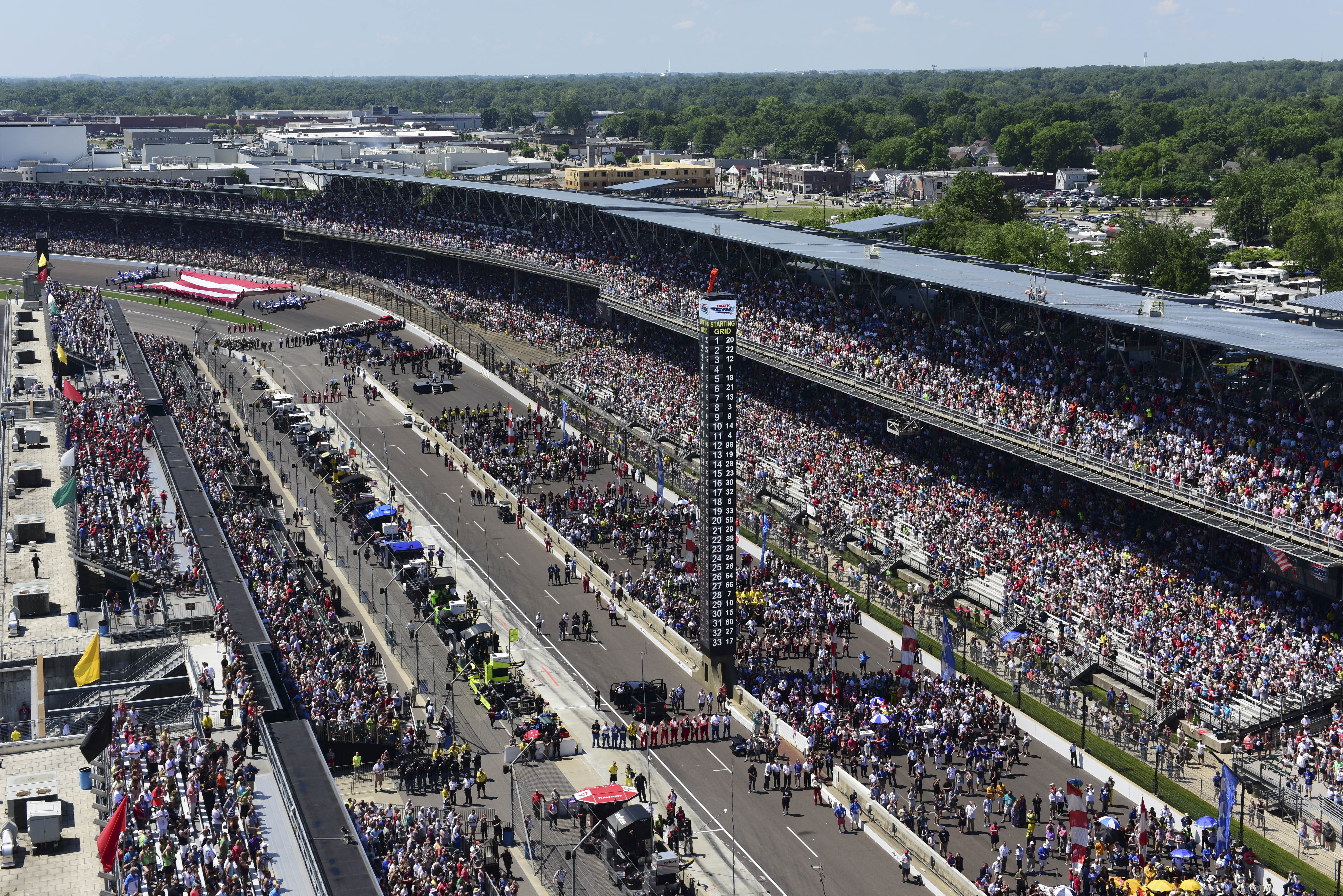 The crowd gathers during the pregame ceremonies at the 2018 Indianapolis 500, May 27, 2018. A B-2 Spirit performed a flyover before the start of the race. (U.S. Air Force photo by Staff Sgt. Joel Pfiester)